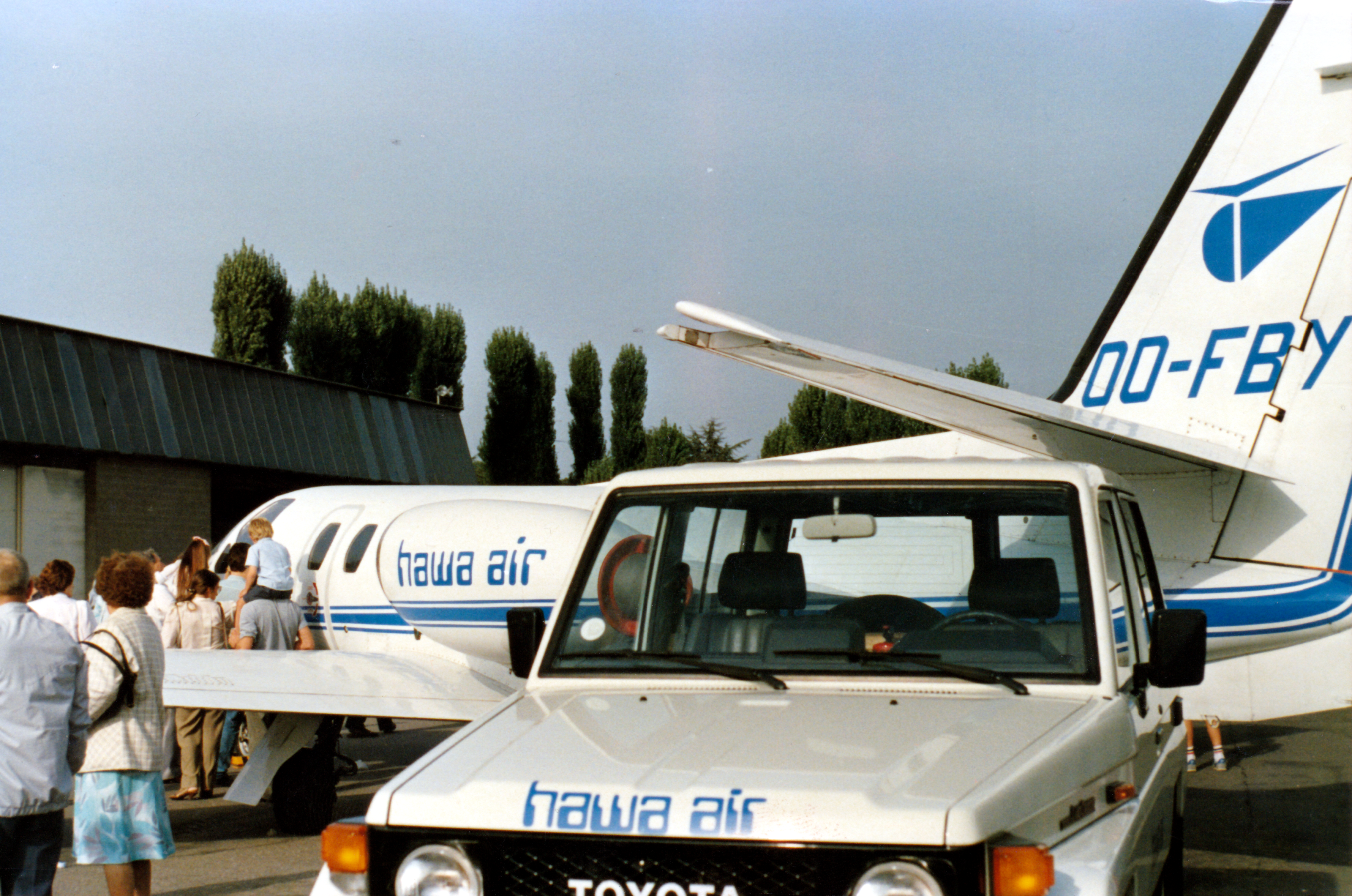 A photo of one of Hawa Air's Cessna's Citation Jets and one of Hawa Air's company cars during a public fair. Around 1980.